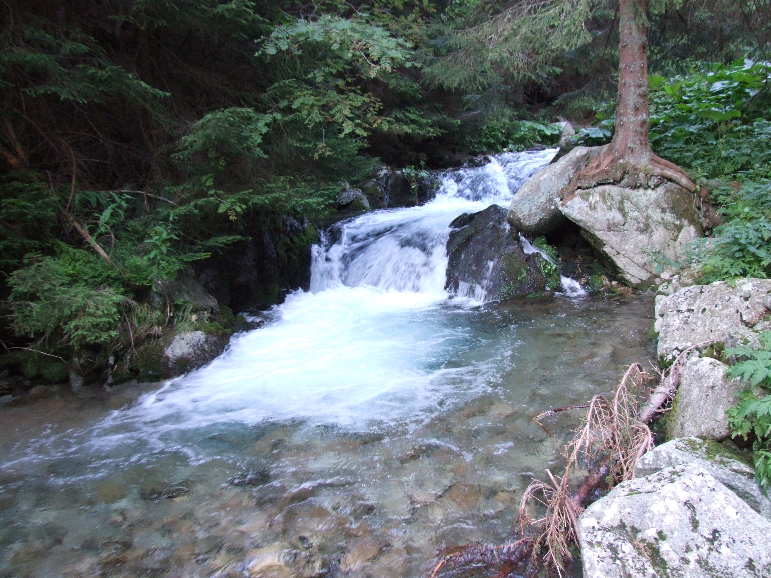 Łatany Potok (West Tatra Mountains)